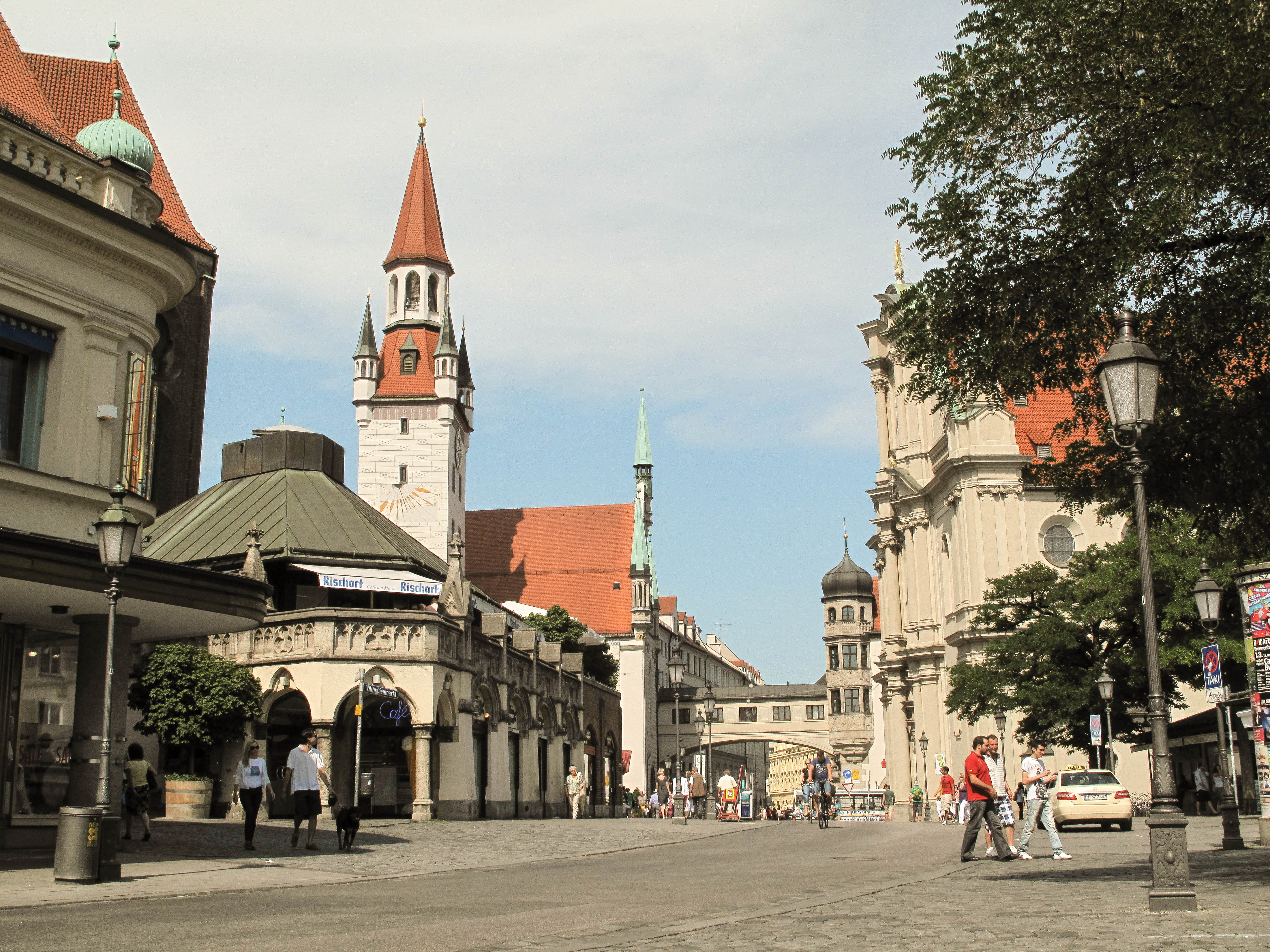 München, Viktualienmarkt and das Alte Rathaus